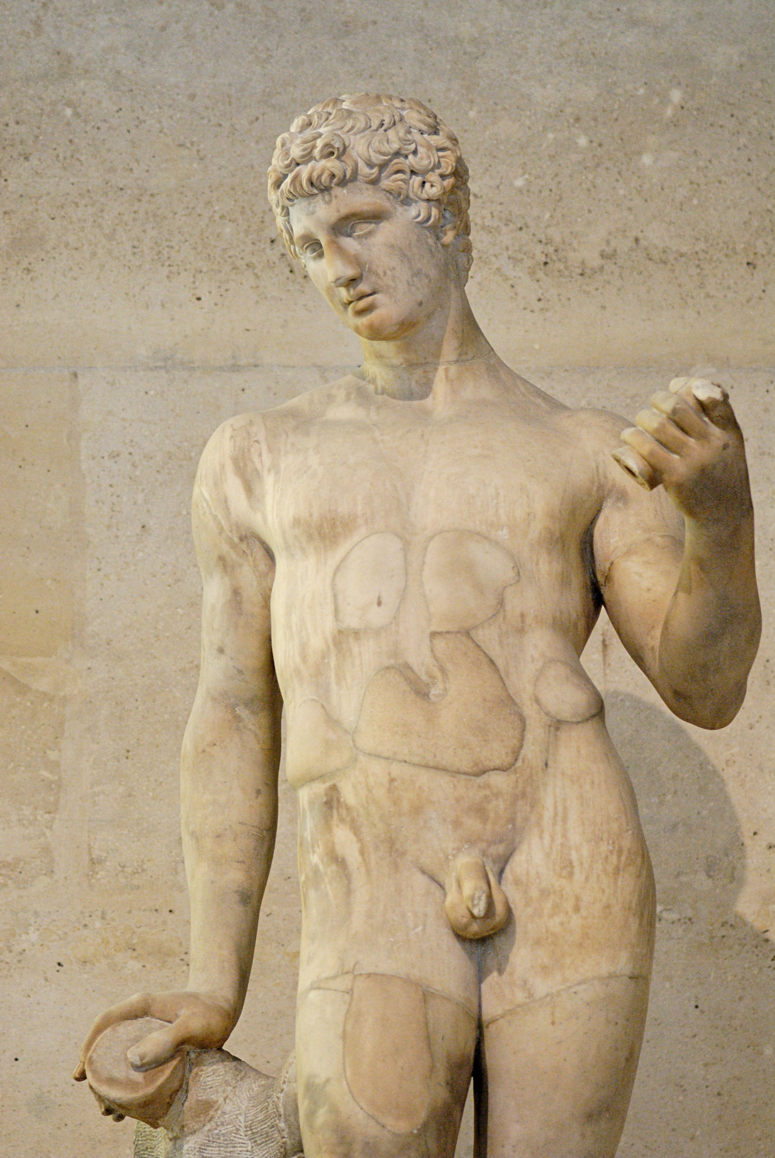 Adonis. Marble, antique torso restored and completed by Duquesnoy.